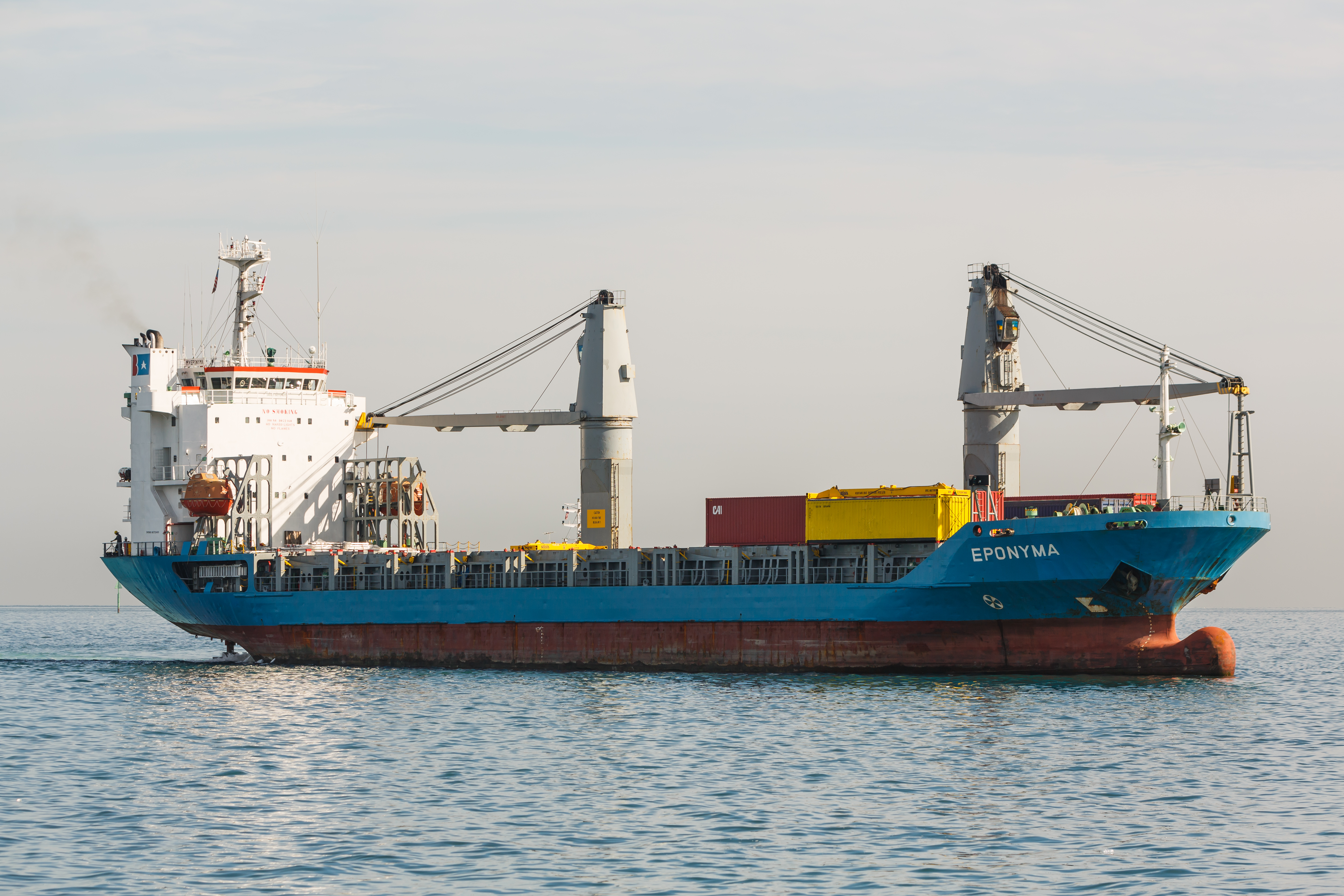 Kota Kinabalu, Sabah: General Cargo Vessel EPONYMA in Likas Bay. Flag: Tuvalu Type: General Cargo Vessel IMO: 9072460 MMSI: 572377210 Call sign: T2AY4 GRT: 4883 L x W: 107m x 18m Year: 1993